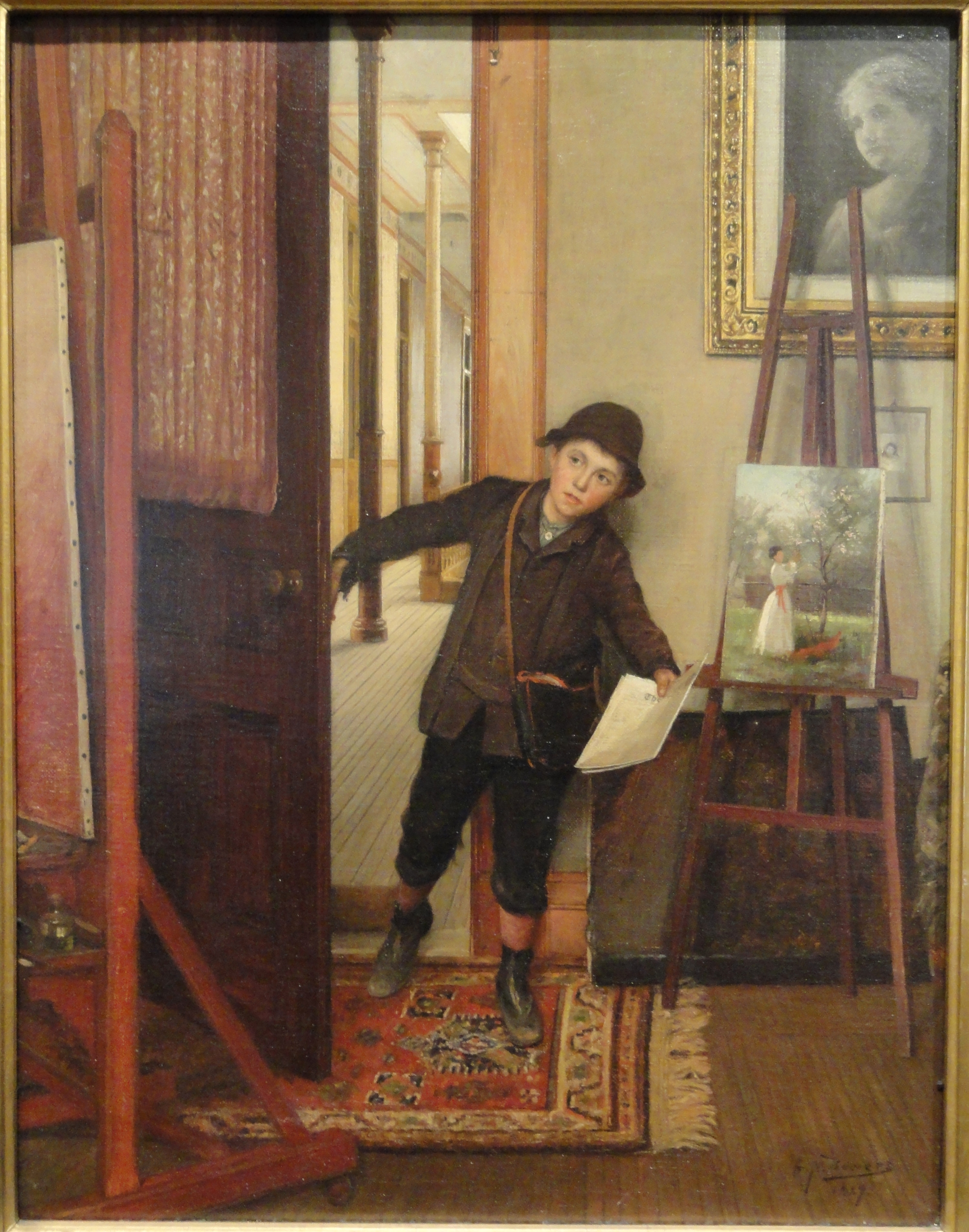 Exhibit in the Museum of Fine Arts, Springfield, Massachusetts, USA. This artwork is old enough so that it is in the public domain.